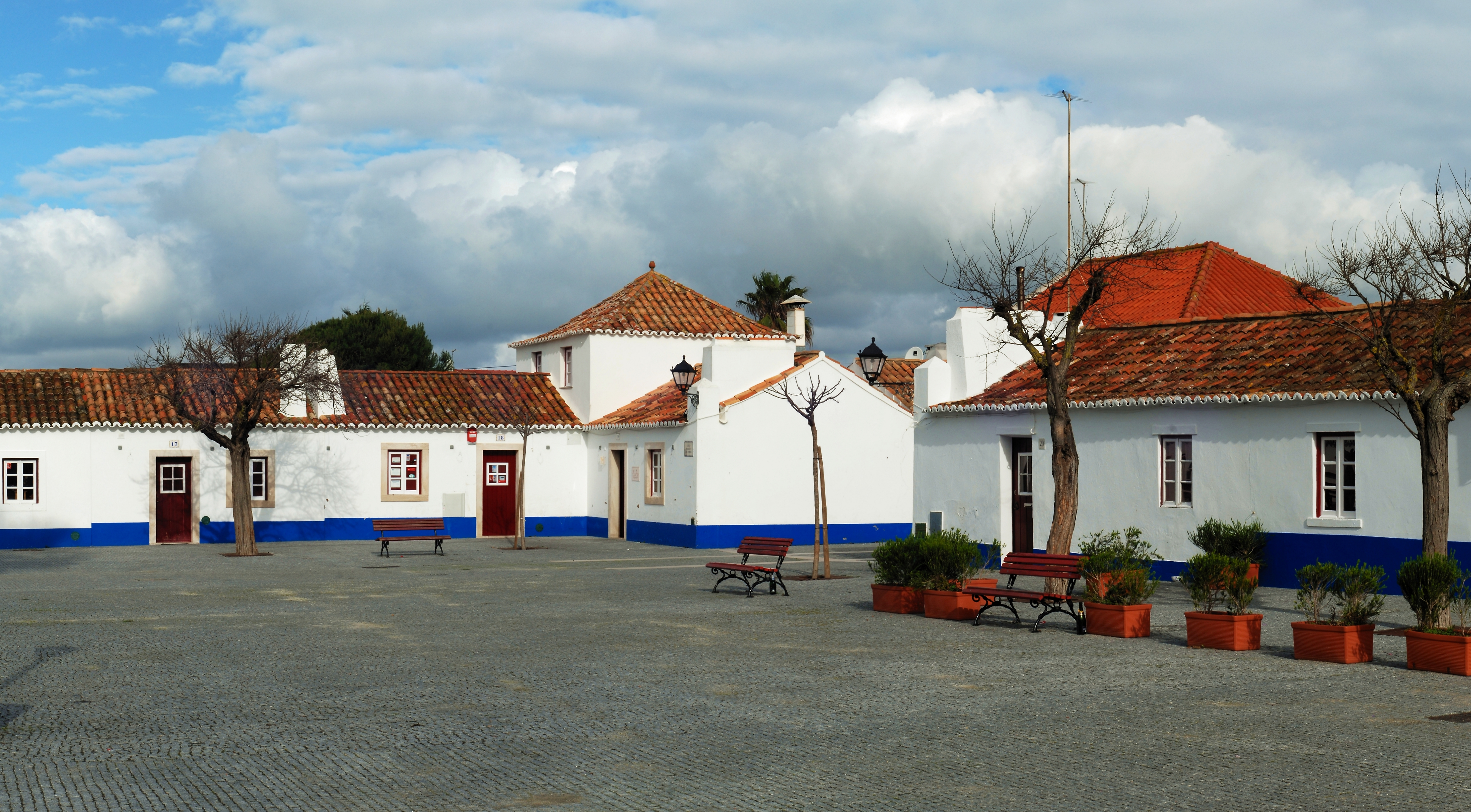 Detail of "Largo Marquês de Pombal", Porto Covo, Portugal.